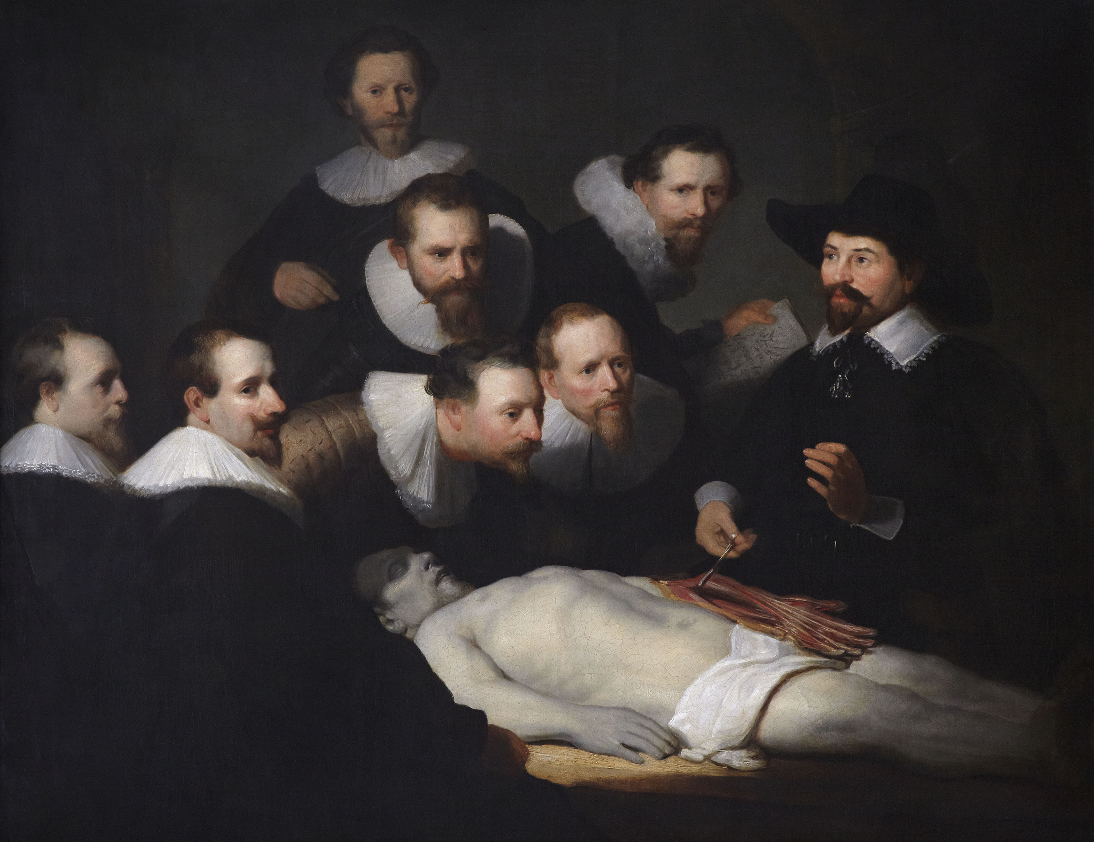 jpeg